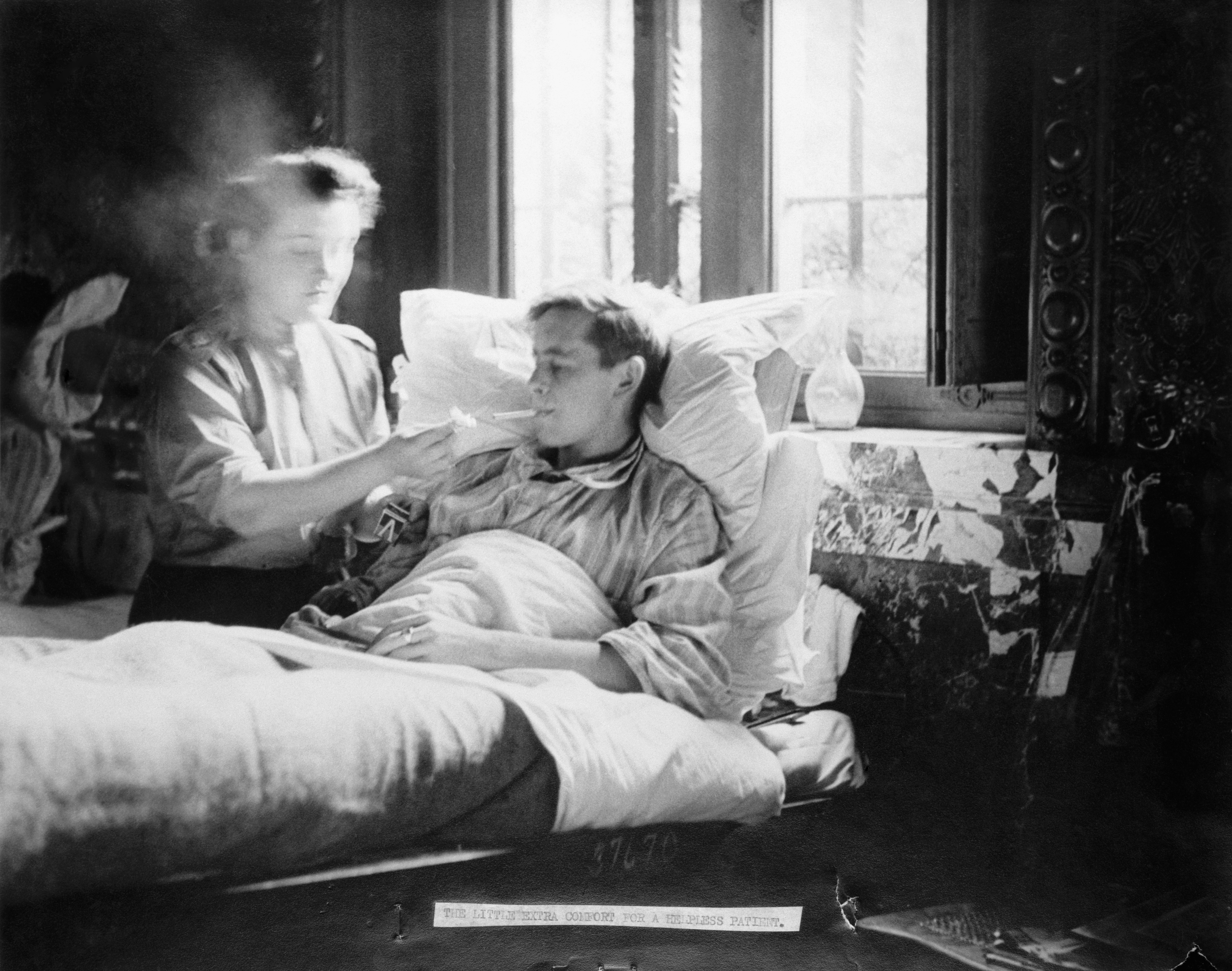 CMAC: RAMC 801/22/34 Royal Army Medical Corps Muniments Collection 'The little extra comfort for a helpless patient'. Patient has his cigarette lit for him, c. 1940s Archives & Manuscripts Keywords: Smoking; cmac: ramc 801/22/34; muniments collection; royal army medical corps